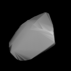 3D convex shape model of 1226 Golia, computed using light curve inversion techniques. J. Hanuš, J. Ďurech, M. Brož, B. D. Warner (June 2011). "A study of asteroid pole-latitude distribution based on an extended set of shape models derived by the lightcurve inversion method". Astronomy and Astrophysics 530: A134. ISSN 0004-6361. arXiv